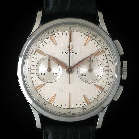 Omega medical chronograph with outer pulsations track, ca. 1950